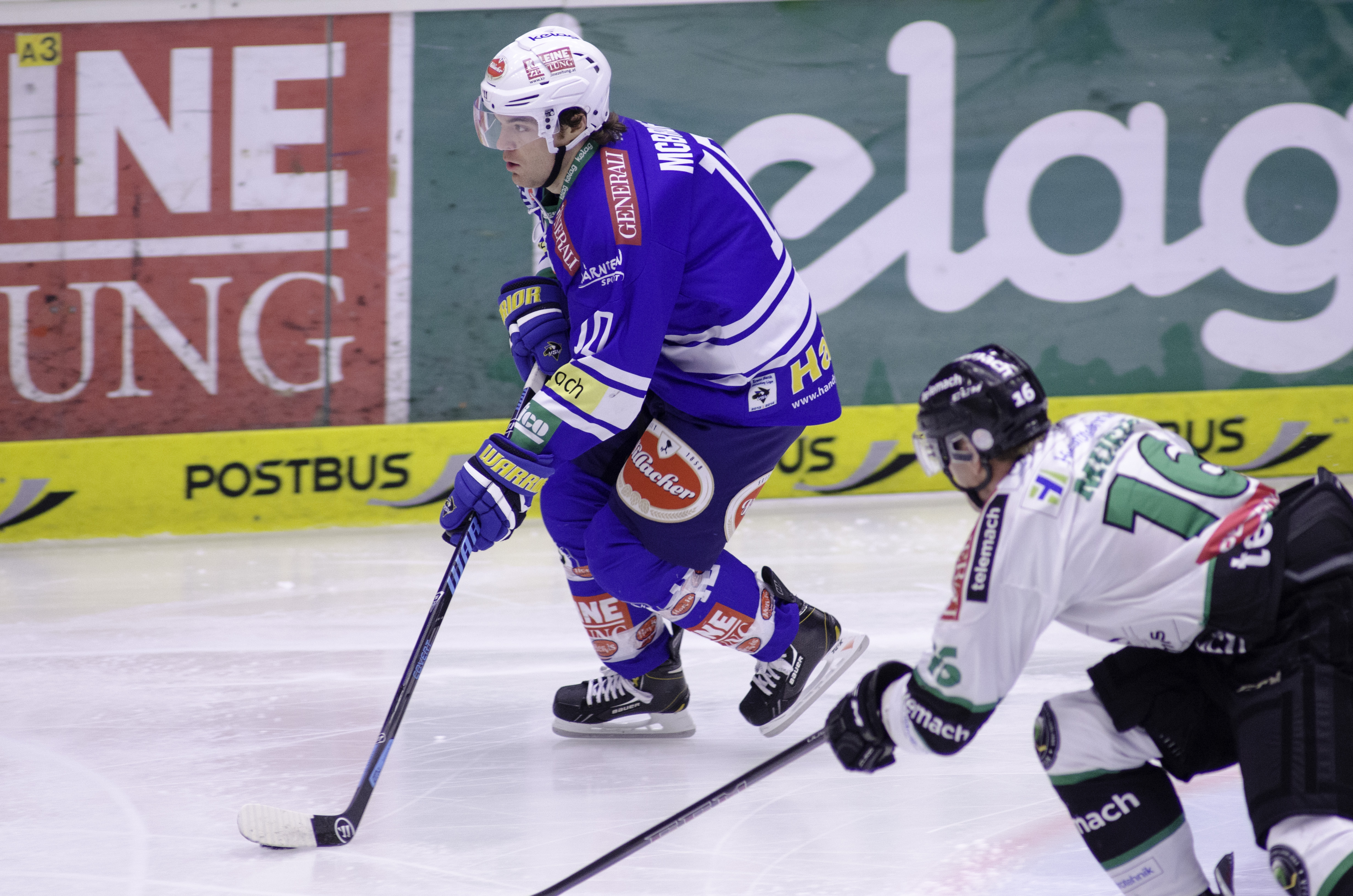 Brock McBride (#10) and Aleš Mušič (right)